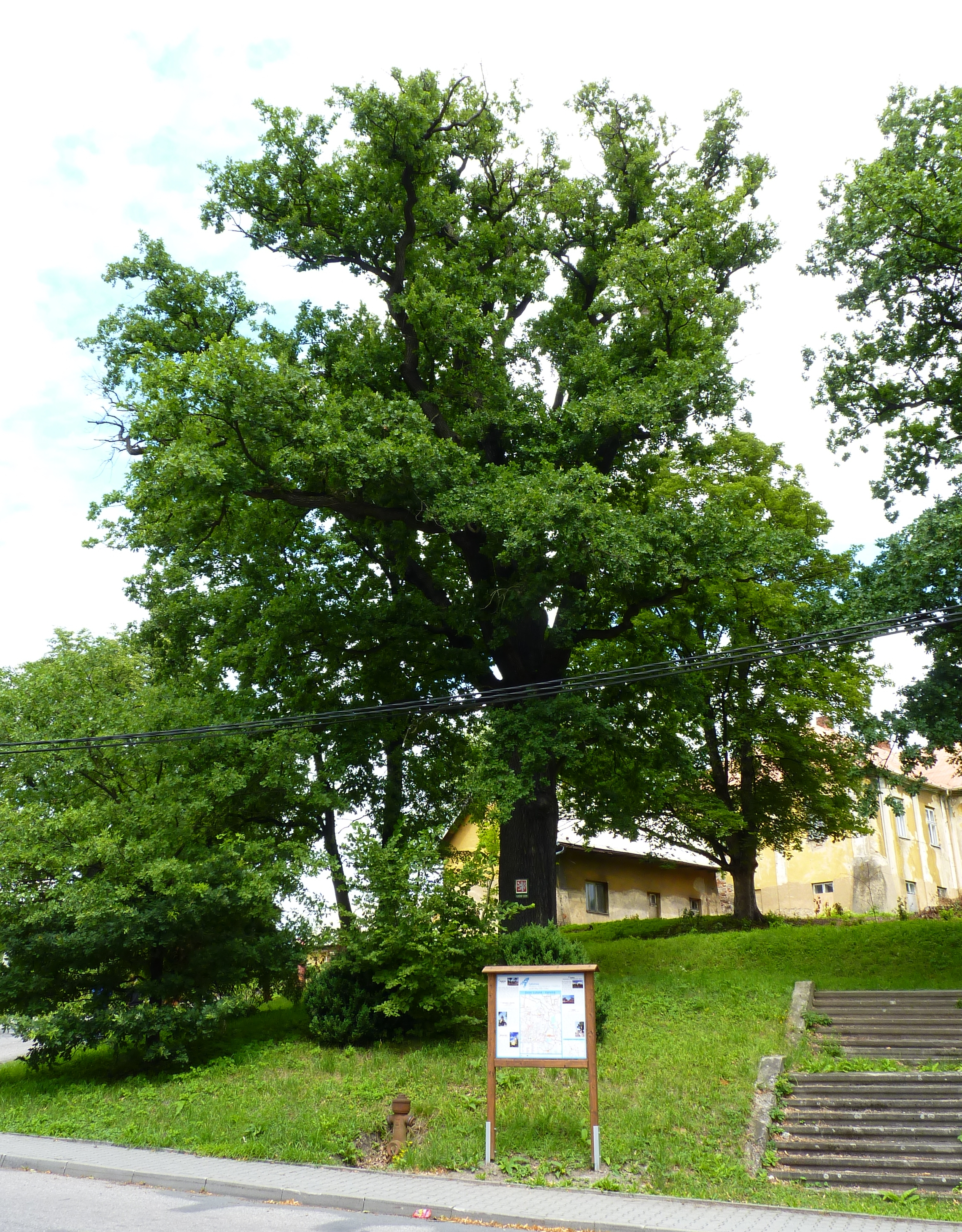 Quercus robur (famous tree). Doubrava, Karviná District, Moravian-Silesian Region, Czech Republic